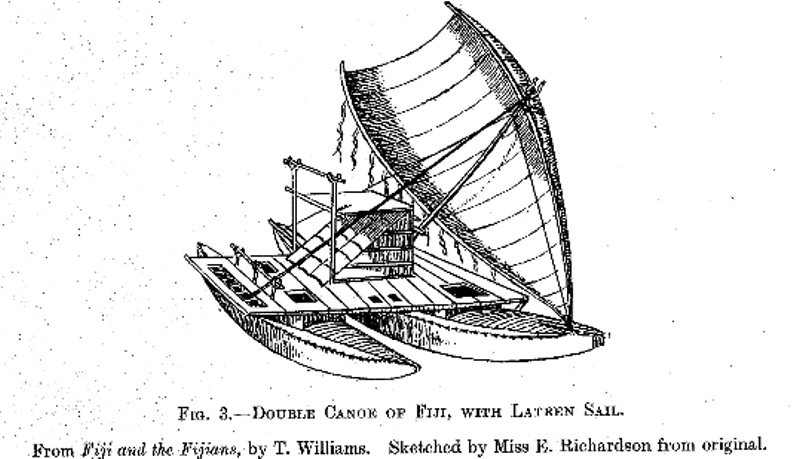 former fidjian catamaran - XIXe century